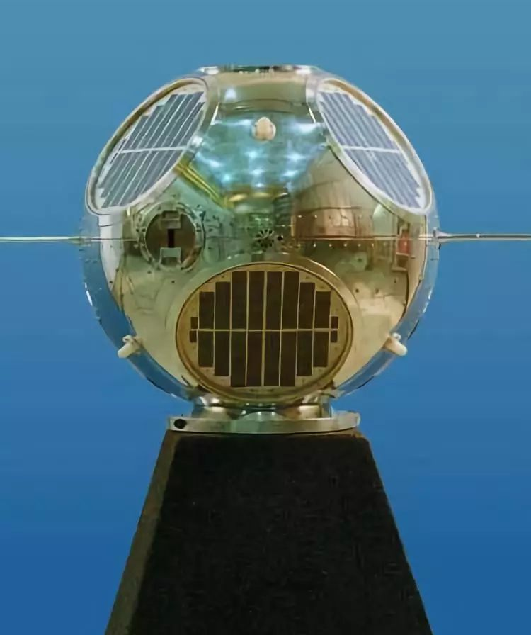 GRAB satellite model on display at the National Cryptologic Museum, Annapolis Junction, Maryland, United States